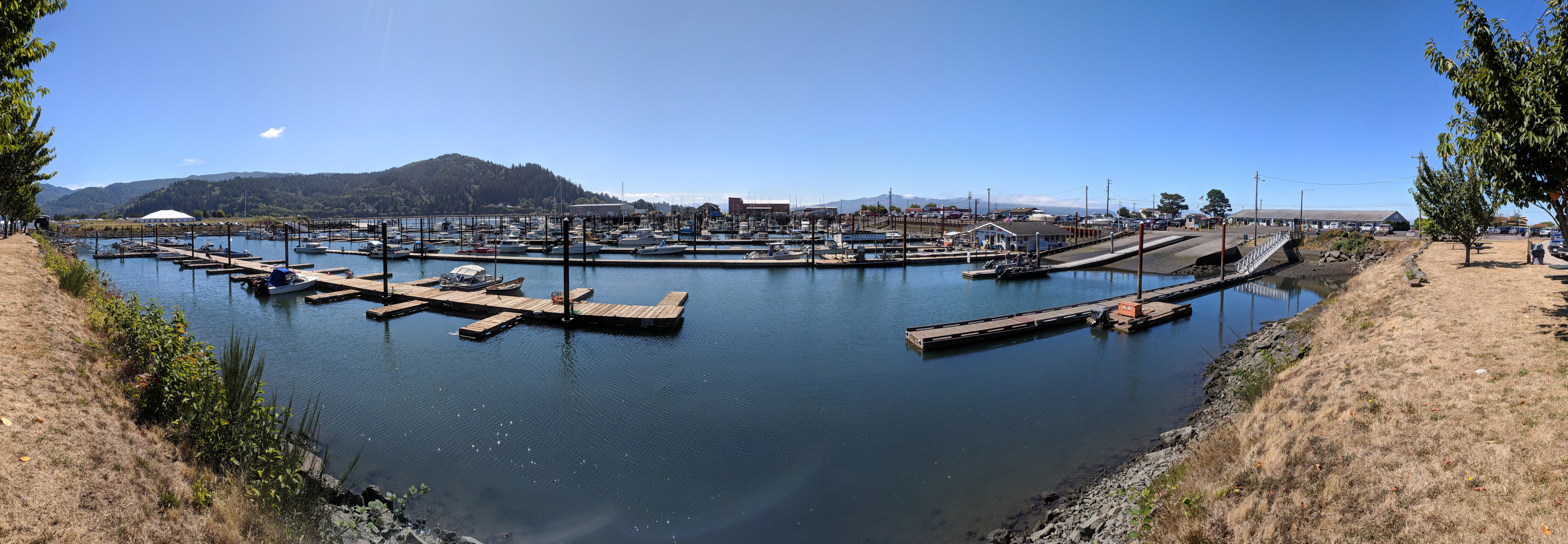 A 180-degree panorama of the Garibaldi Marina at Garibaldi, Oregon, on Tillamook Bay